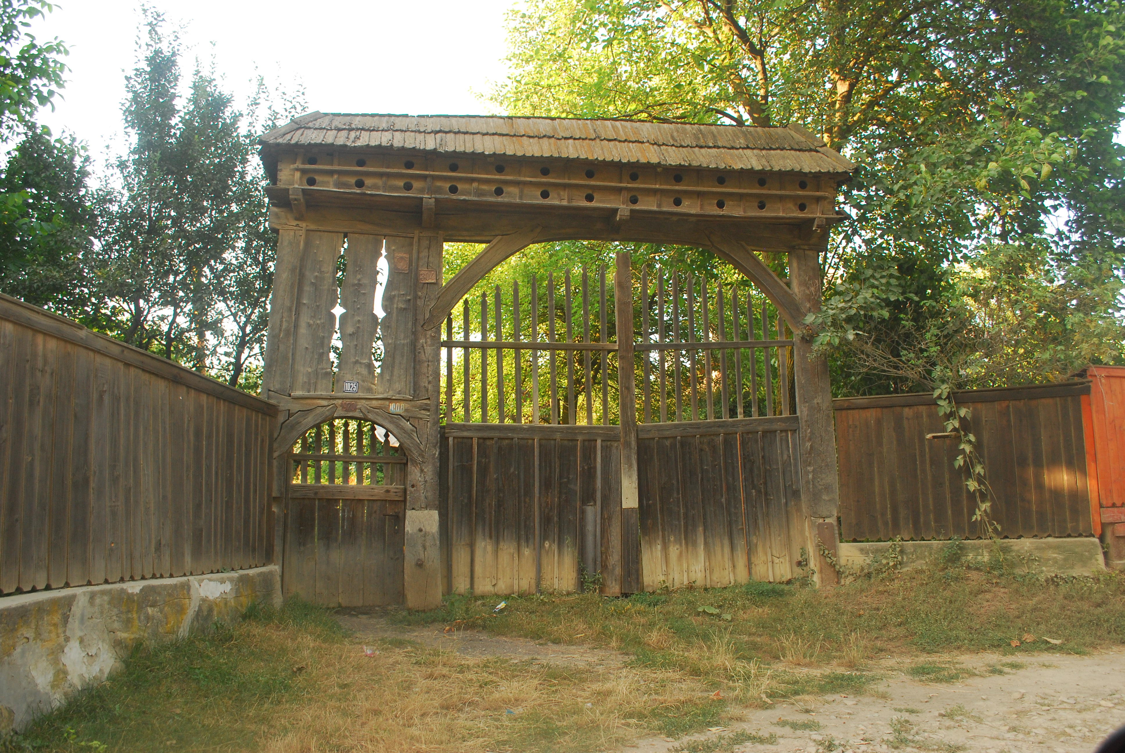 Szekler gate at no. 1025 in Turia, Covasna County, Romania